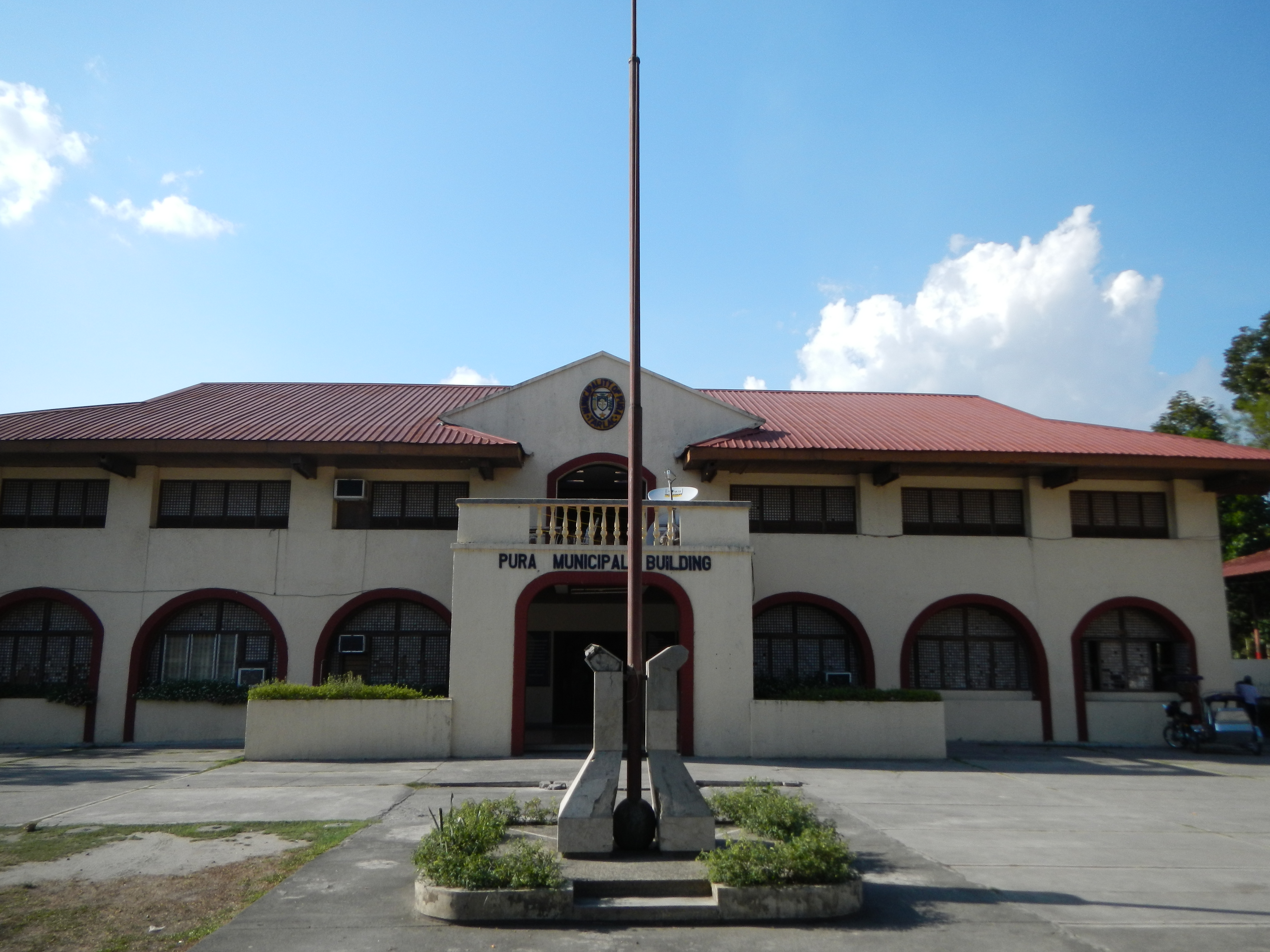 Pura, Tarlac[1] is a fourth class municipality in the province of Tarlac, Philippines. According to the 2010 census, it has a population of 22,949 people,[3] with 14,929 voters (as of Jan. 2010). Pura is located about 78 kilometres (48 mi) from the regional center San Fernando, Pampanga, 55 kilometres (34 mi) from Clark Special Economic Zone (CSEZ) (Angeles City, Pampanga), 19 kilometres (12 mi) from the provincial capital Tarlac City, and 145 kilometres (90 mi) north of Manila.New WebsitePura's topography is characterized by plain slopes, with Luisita fine sand loam and Pura clay loam soil. It is traversed by the Susubaen Creek and Baldo Creek.[2] It has an average monthly rainfall of 29.5 centimetres (11.6 in), an average temperature range of 24.2 to 31.4 °C (76 to 89 °F), and a wind speed of 7.1 knots/hour.[3] Area: 31.01 km² ZIP Code: 2312[4]Coordinates: 15°37'10"N 120°39'22"E It was during the Spanish regime when migrants coming from the Ilocos Region ( Ilocos Norte, Ilocos Sur and La Union) moved southward to look for arable lands. Read more: [5]At present, the Municipal Leadership is under the reins of Hon. Concepcion A. Zarate, M.D.